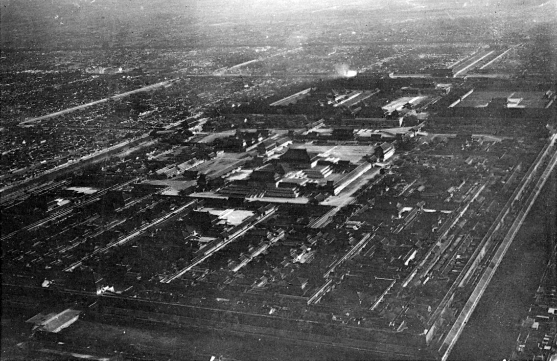 Image from La Chine à terre et en ballon.